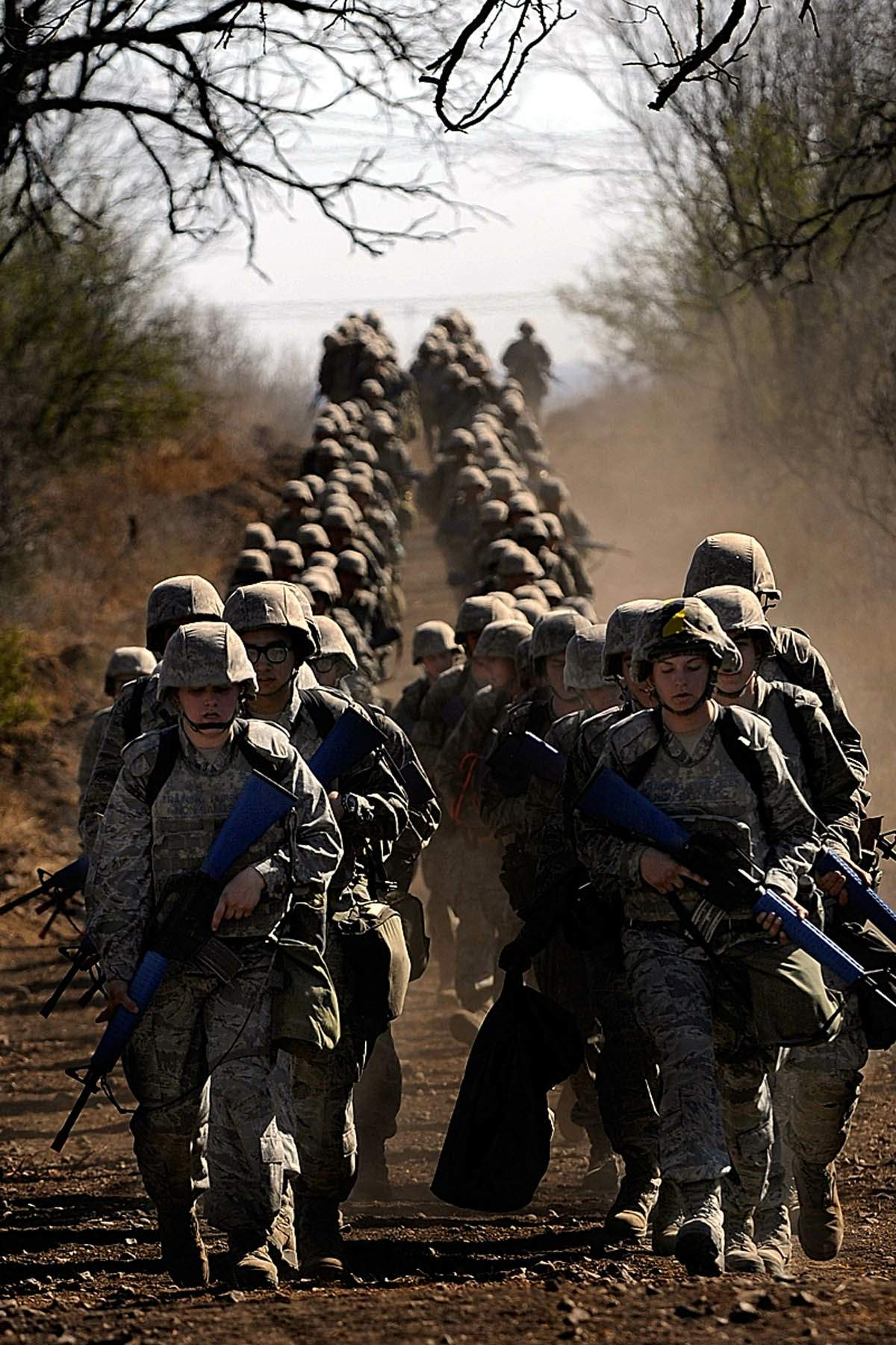 Equipped with combat gear, Air Force basic trainees march in two columns from a mock air base where they practiced a defensive scenario during basic military training at Lackland Air Force Base, Texas.